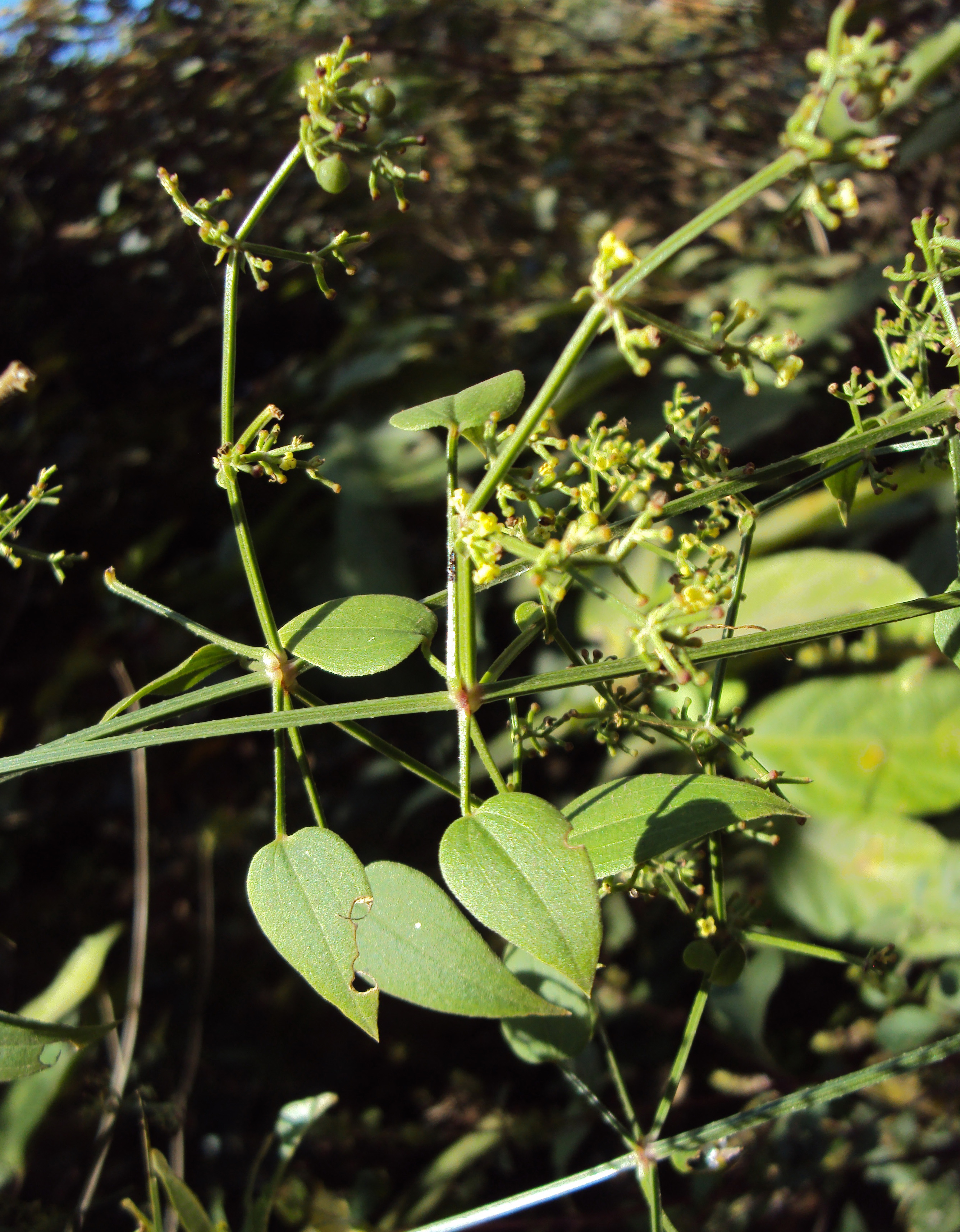 Rubia Cordifolia